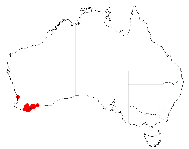 Acacia leioderma Occurrence data from Australasia Virtual Herbarium downloaded from on 8 December 2018